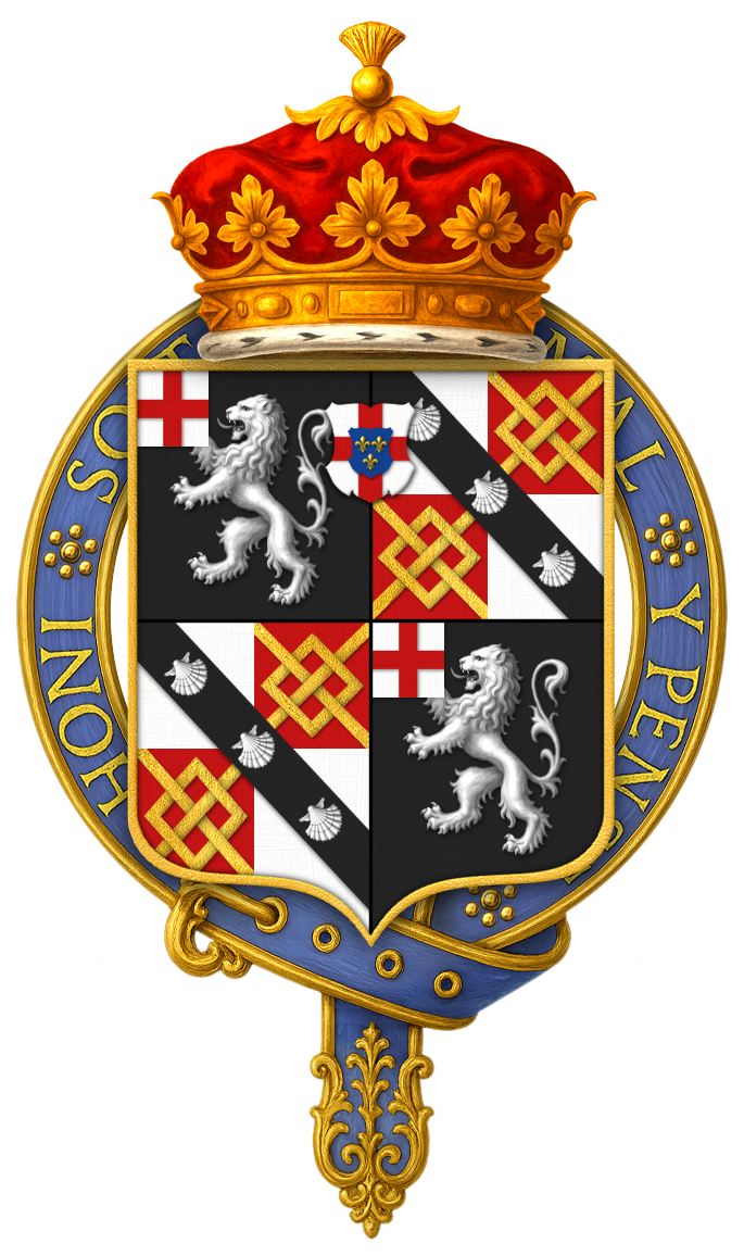 Garter encircled shield of arms of Charles Spencer-Churchill, 9th Duke of Marlborough, KG, as displayed on his Order of the Garter stall plate in St. George's Chapel.